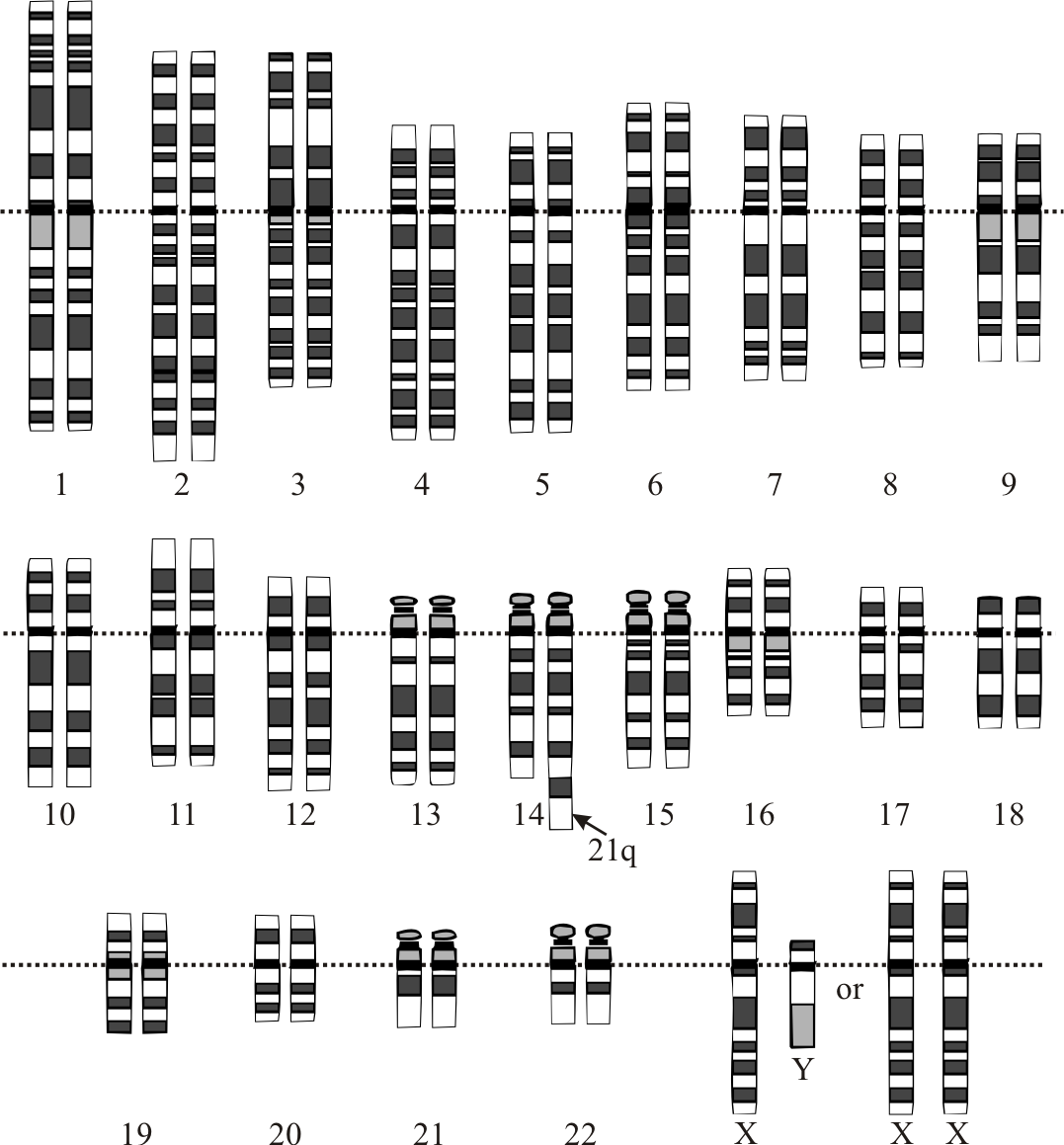 Down Syndrome translocation